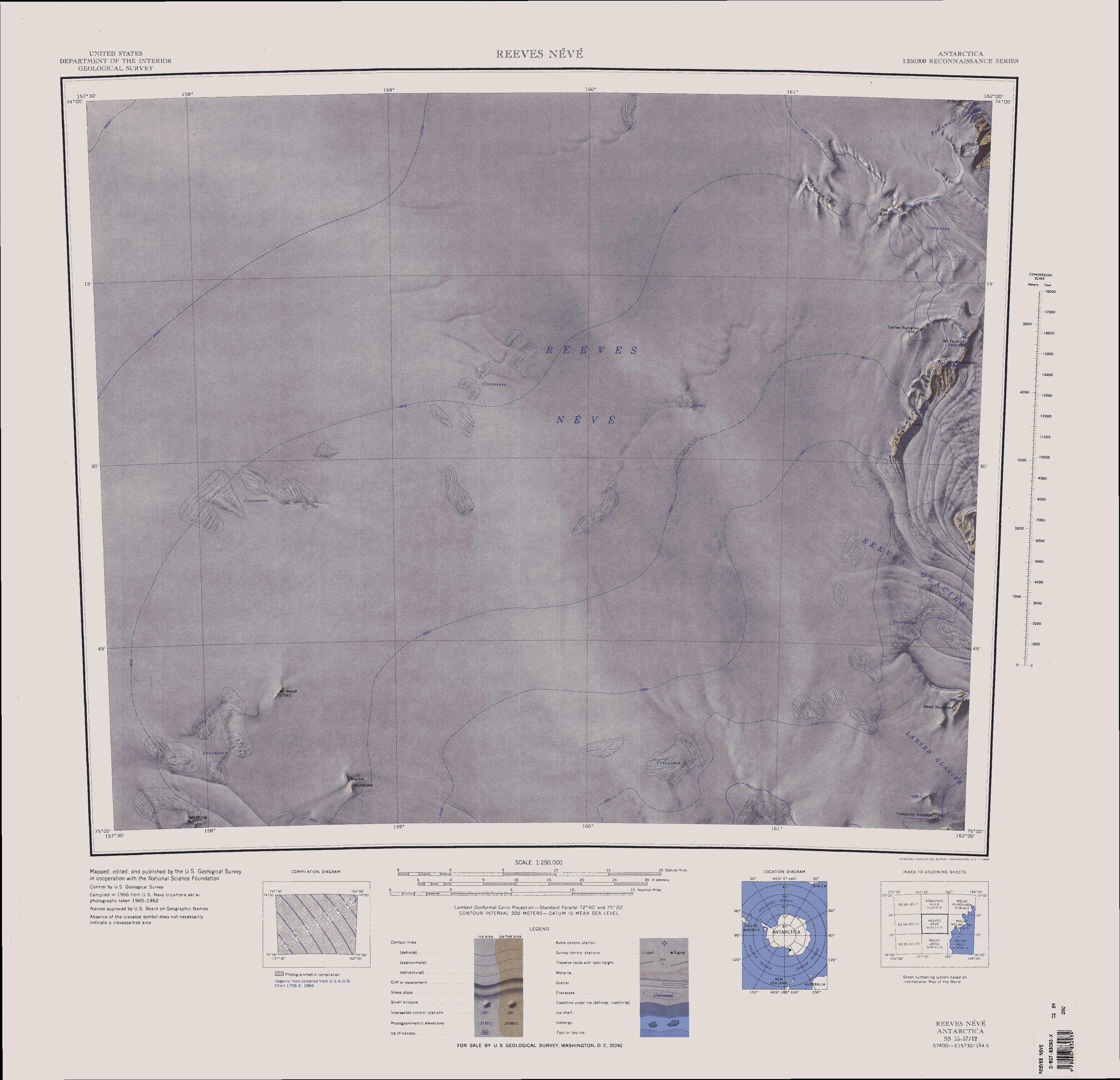 1:250,000-scale topographic reconnaissance map of the Reeves Névé area from 157°30'-162°E to 74°-75°S in Antarctica. Mapped, edited and published by the U.S. Geological Survey in cooperation with the National Science Foundation.